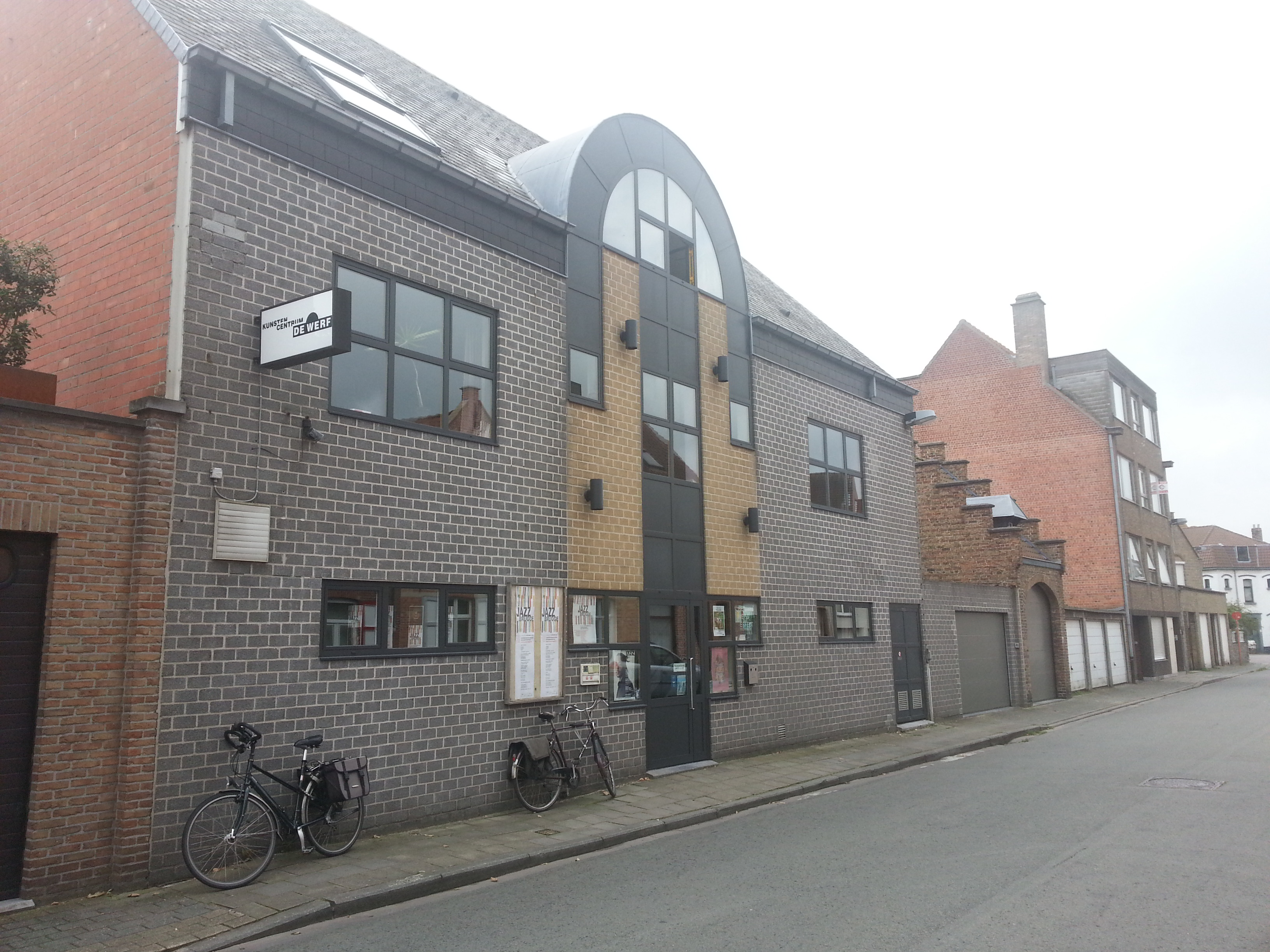 De Werf cultural center, Bruges, Belgium